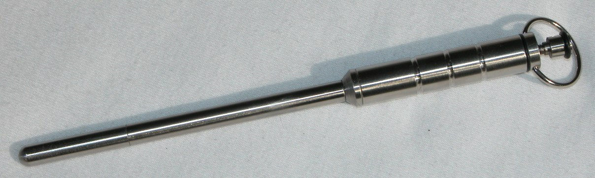 urethra dilator